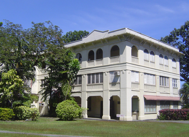 Guy Hall (Built 1918), Silliman University